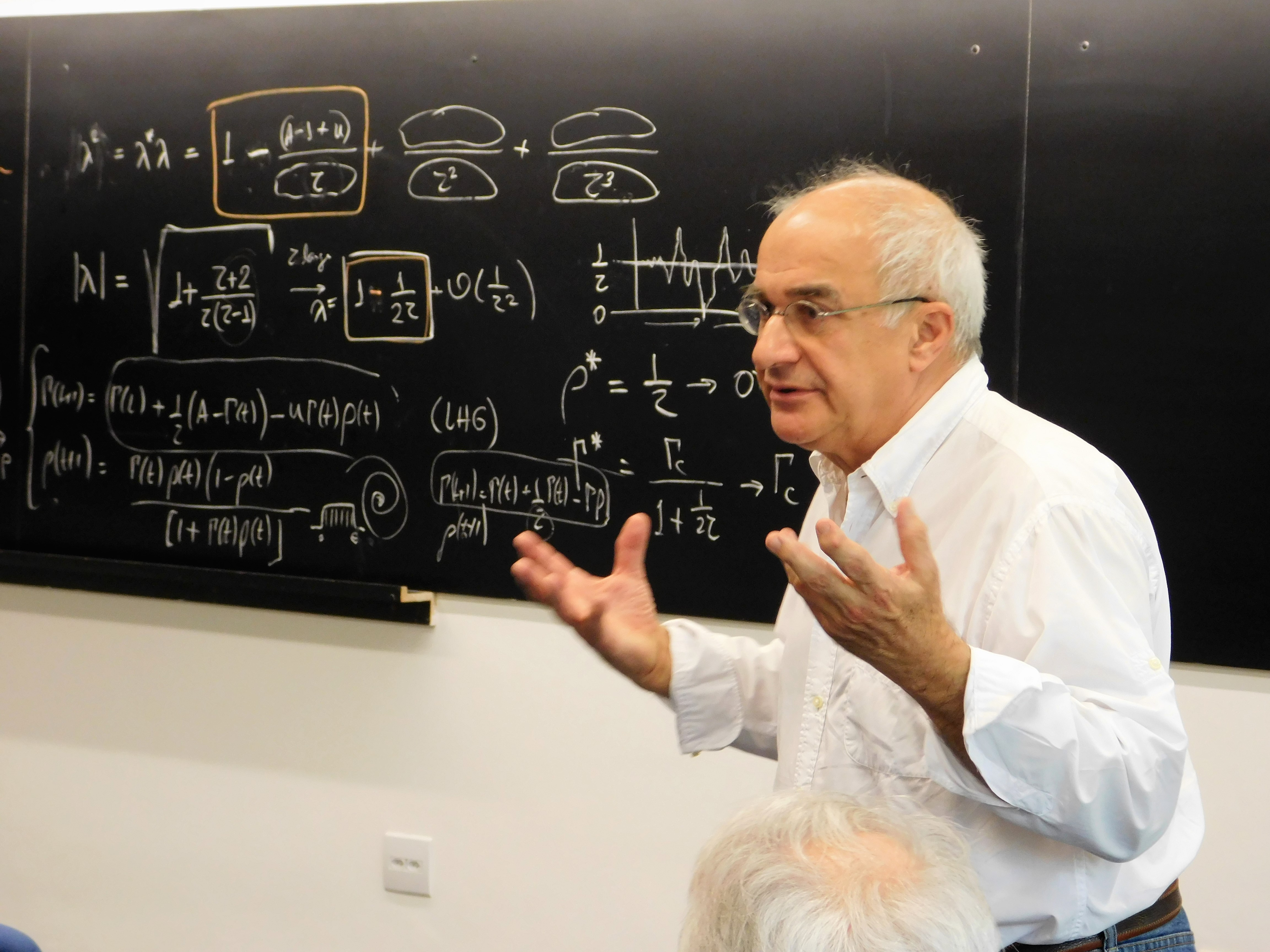 From October 16 to 20 NeuroMat hosted the workshop “Random Structures in the Brain”. The workshop was organized as a setting for a general discussion on NeuroMat's achievements and prospective activities and as an opportunity for sparking new directions for the RIDC working groups in research, technology transfer and scientific dissemination. The event's website is: Pictured: Antonio Galves.